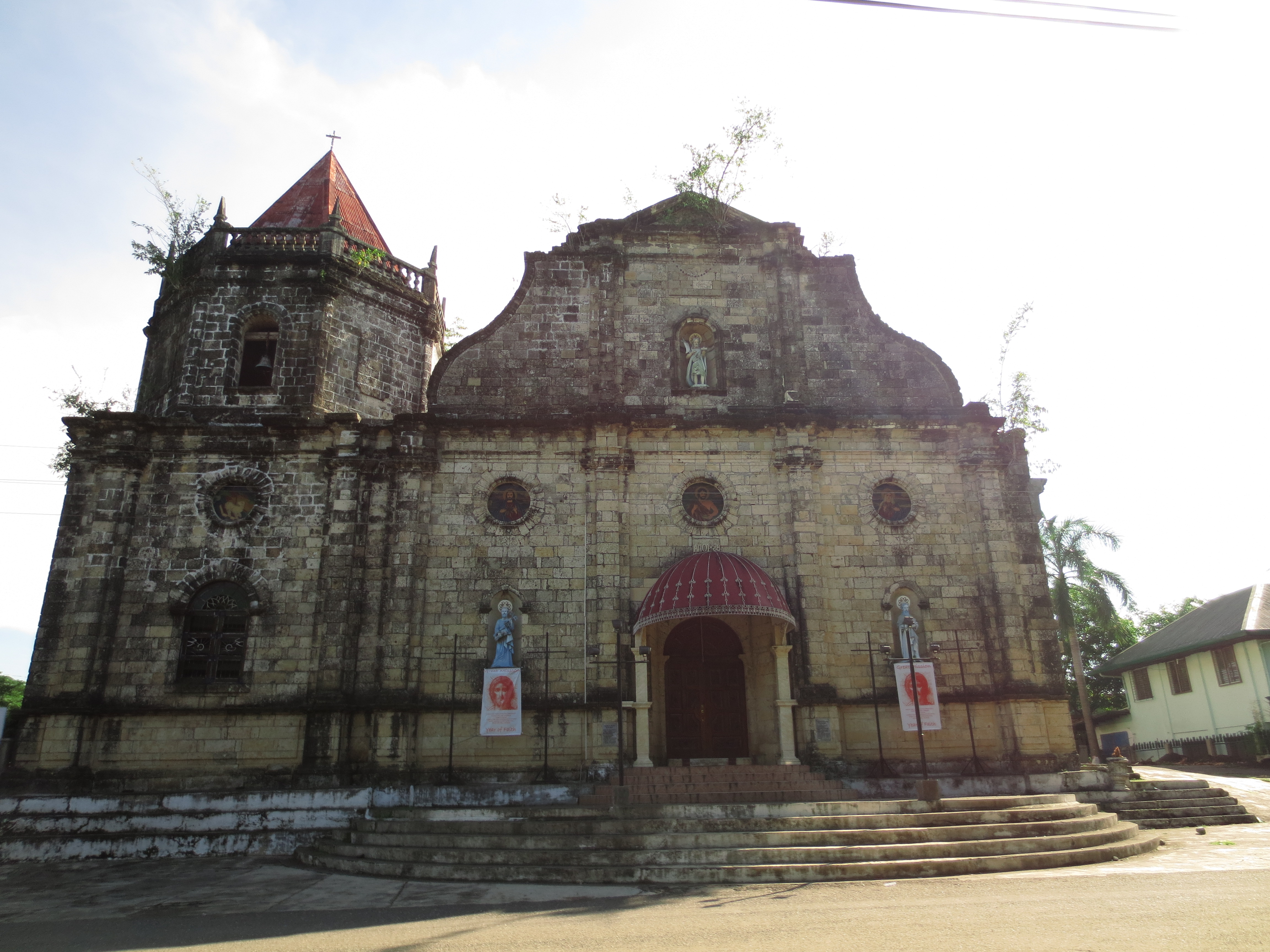 The facade of the Dingle Church